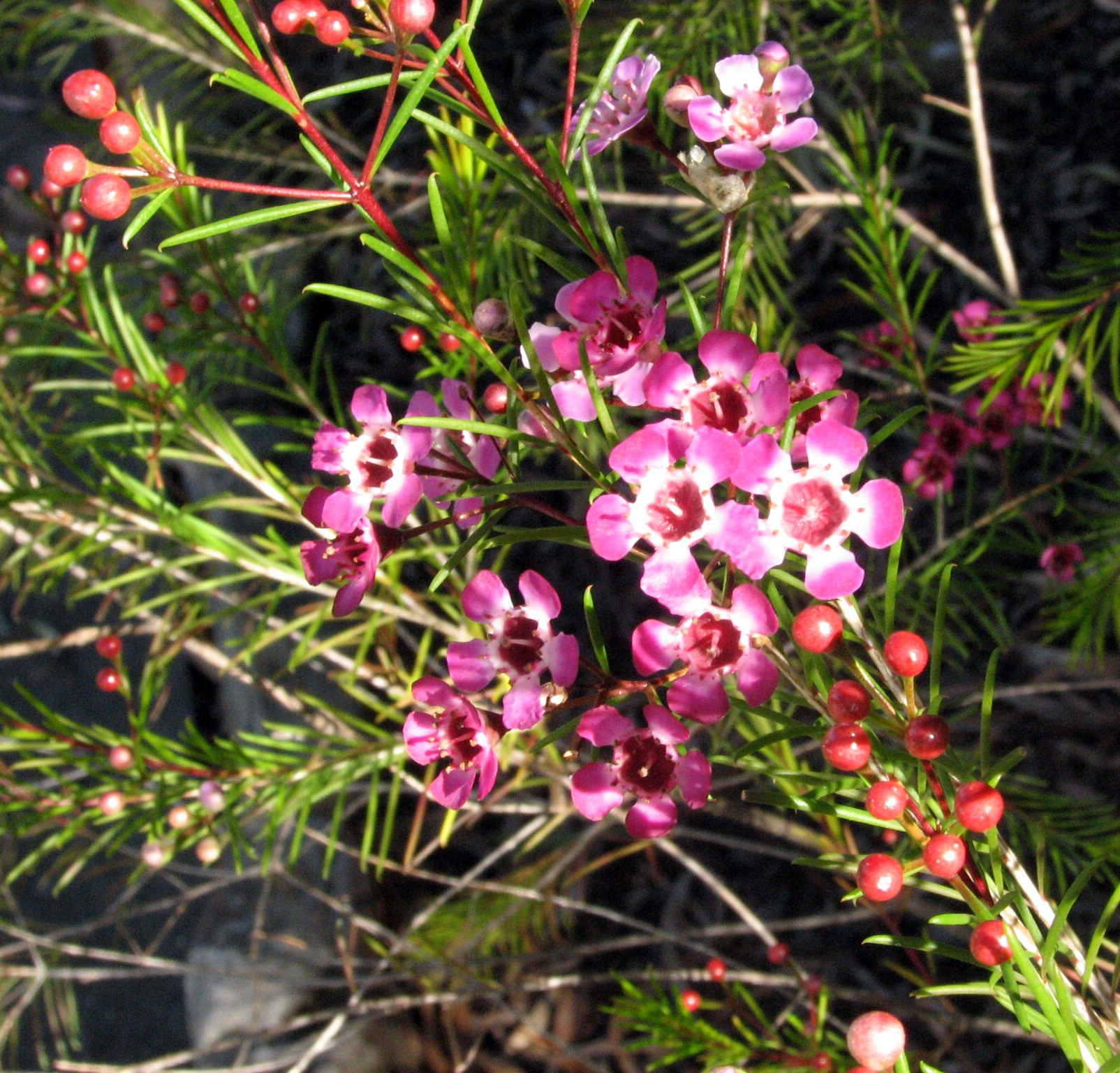 Geraldton Wax photographed by me in Chatswood, Sydney